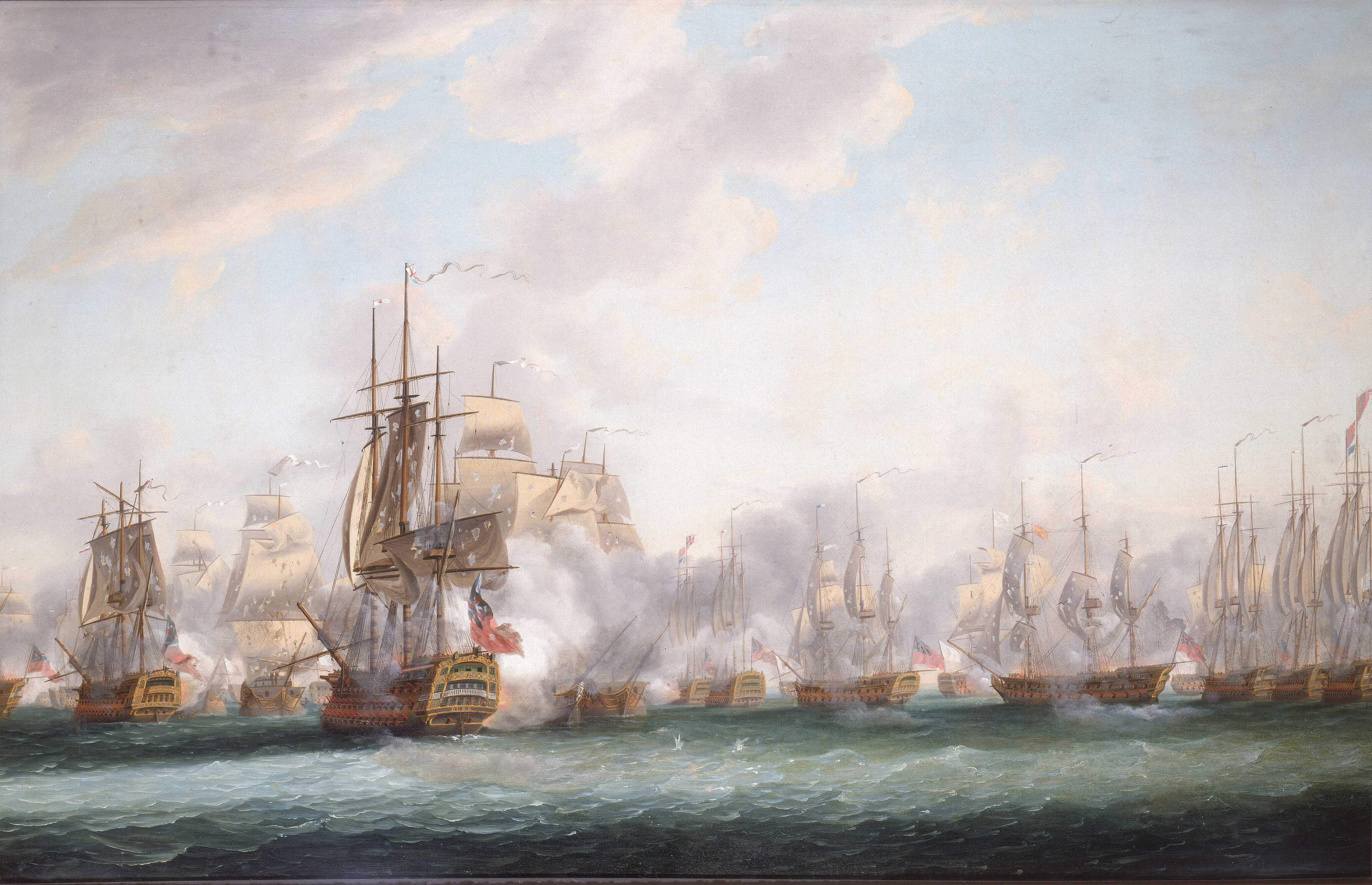 The Battle of the Saints, 12 April 1782 By 1782, and towards the end of the War of American Independence the chief aspiration of the French in the West Indies was the capture of Jamaica. Sailing from Fort Royal, Martinique under the Comte de Grasse, their fleet was first engaged by the British West Indies Fleet under Admiral Sir George Brydges Rodney off Dominica on 9 April, and more conclusively off the group of islets to the north called the Saints on the 12 April. Rodney's victory proved a counterbalance to the loss of the British colonies in America, allowing Britain to secure superiority over the French in the Caribbean at the ensuing Treaty of Versailles which ended the war in 1783. As the opposing battle lines engaged on parallel courses, a slight change of wind enabled Rodney to sail through the French line and throw it into disorder. A general chase ensued and the French flagship, 'Ville de Paris', 104-guns, surrendered to Rear-Admiral Sir Samuel Hood in ‘Barfleur’. This painting shows the British fleet breaking the French line. In the centre background, Rodney, in the ‘Formidable’ has broken through followed by the ‘Namur’, ‘St Albans and the ‘Canada’. In the left foreground the ‘Duke’ is moving up to break the line and engaging two French ships. To the left of her is the ‘Agamemnon’ also engaging two French ships to starboard and in the extreme left is the stern of another British ship half out of the picture. The stern of the ‘Ville de Paris’ starboard quarter view can be seen in the right background under the bow of the ‘Canada’. In the extreme right astern of the ‘Canada’ three more British ships ‘Ajax’, ‘Repulse’ and ‘Bedford’ are about to break the French line. Beyond them are other units of the French fleet, starboard quarter view. The prominence in this painting of the ‘Duke’ shown in the act of breaking the French line suggests that the artist may have painted it for her captain Alan Gardner. The battle of The Saints, 12 April 1782